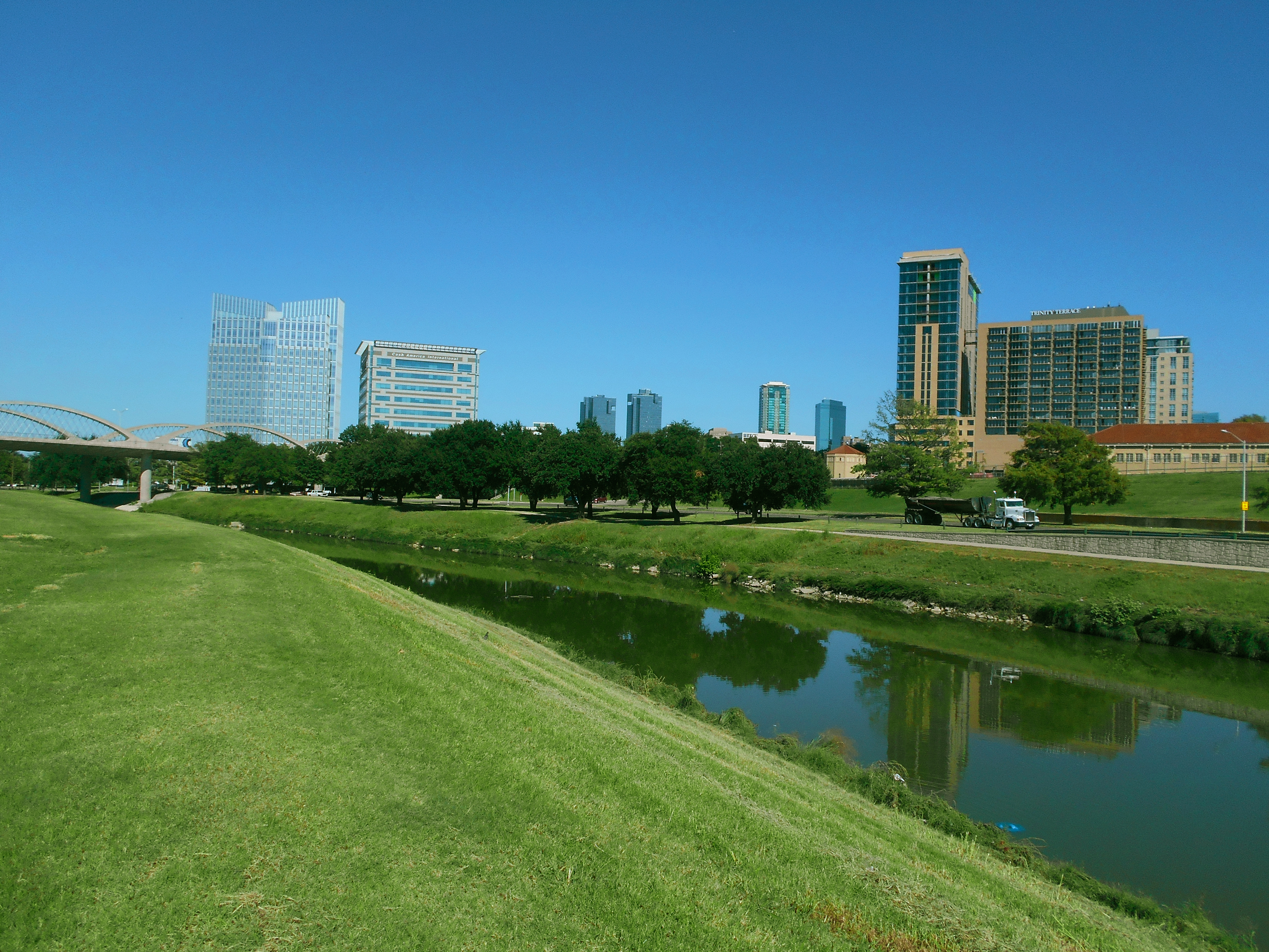 Trinity Landscape